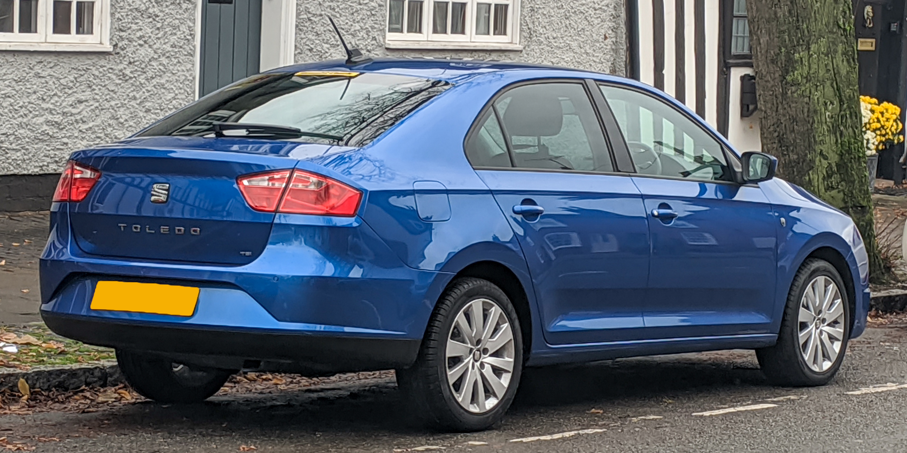 2014 SEAT Toledo SE TSi 1.2 Rear Taken in Warwick